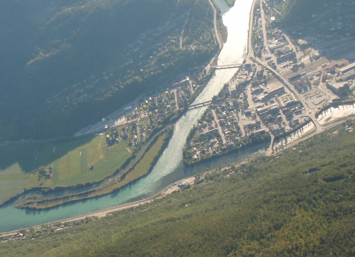 River Otta flows into main river Gudbrandsdalslågen at Otta town, differences in color (water quality) clearly visible.